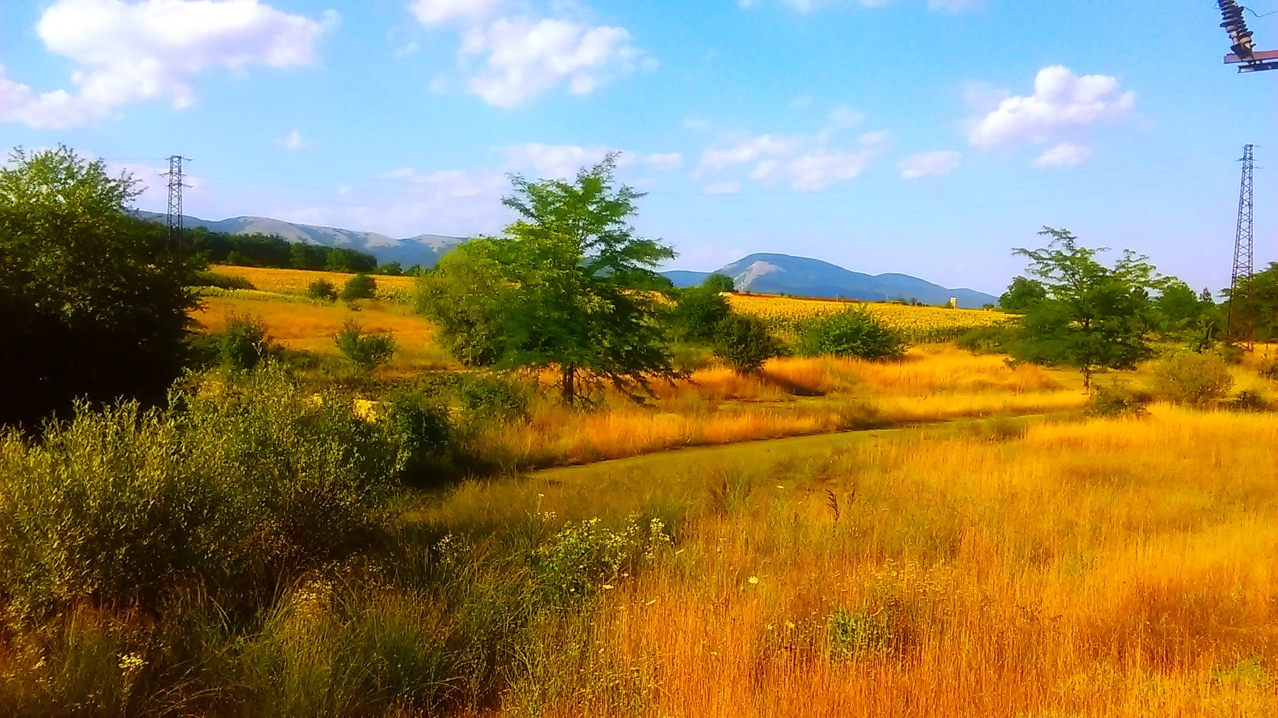 Sunflower and other crops in July near Vedrovo, Burgas province